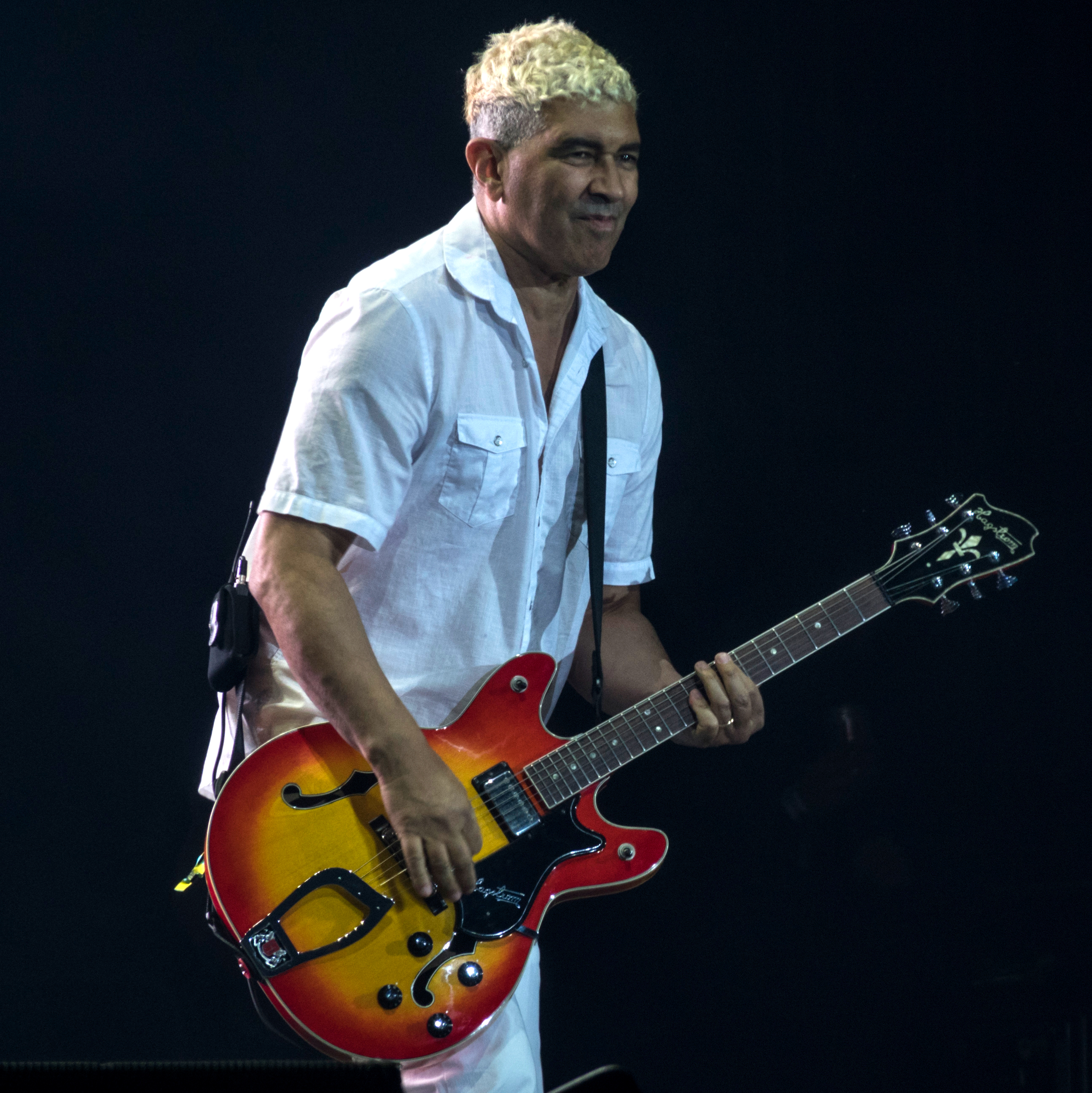 Performance of American rock band Foo Fighters at Lollapalooza Berlin 2017.